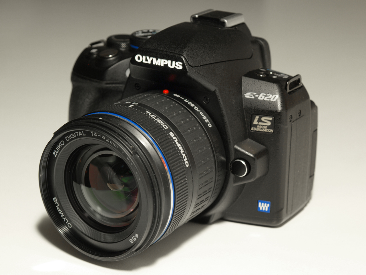 Olympus E-620 DSLR with 14-42 mm 3.5-5.6 kit lens.